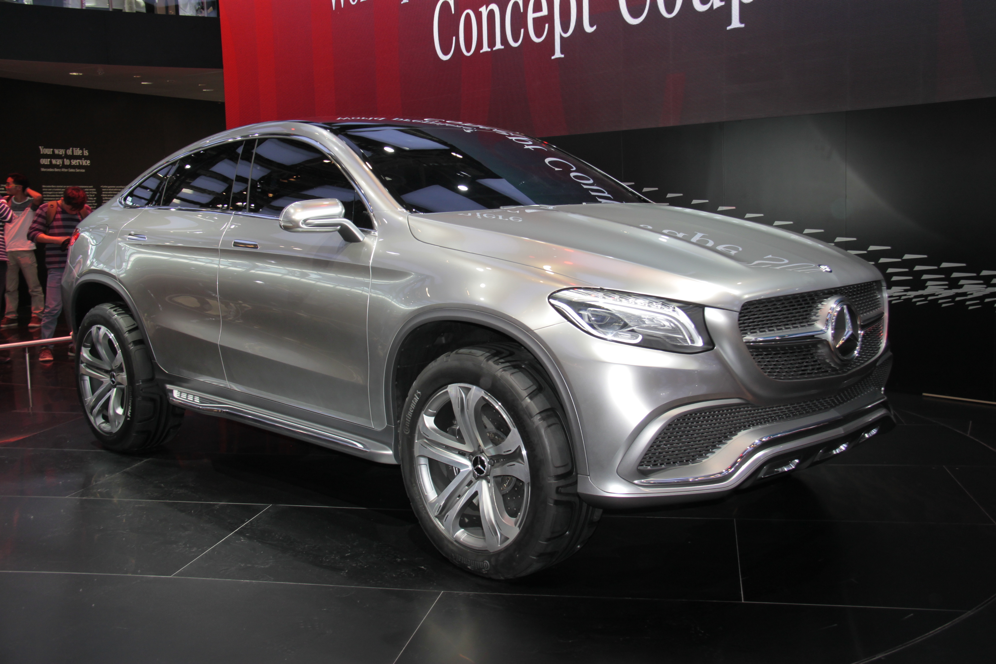 Mercedes-Benz Concept Coupé SUV at Auto China 2014 (Beijing)